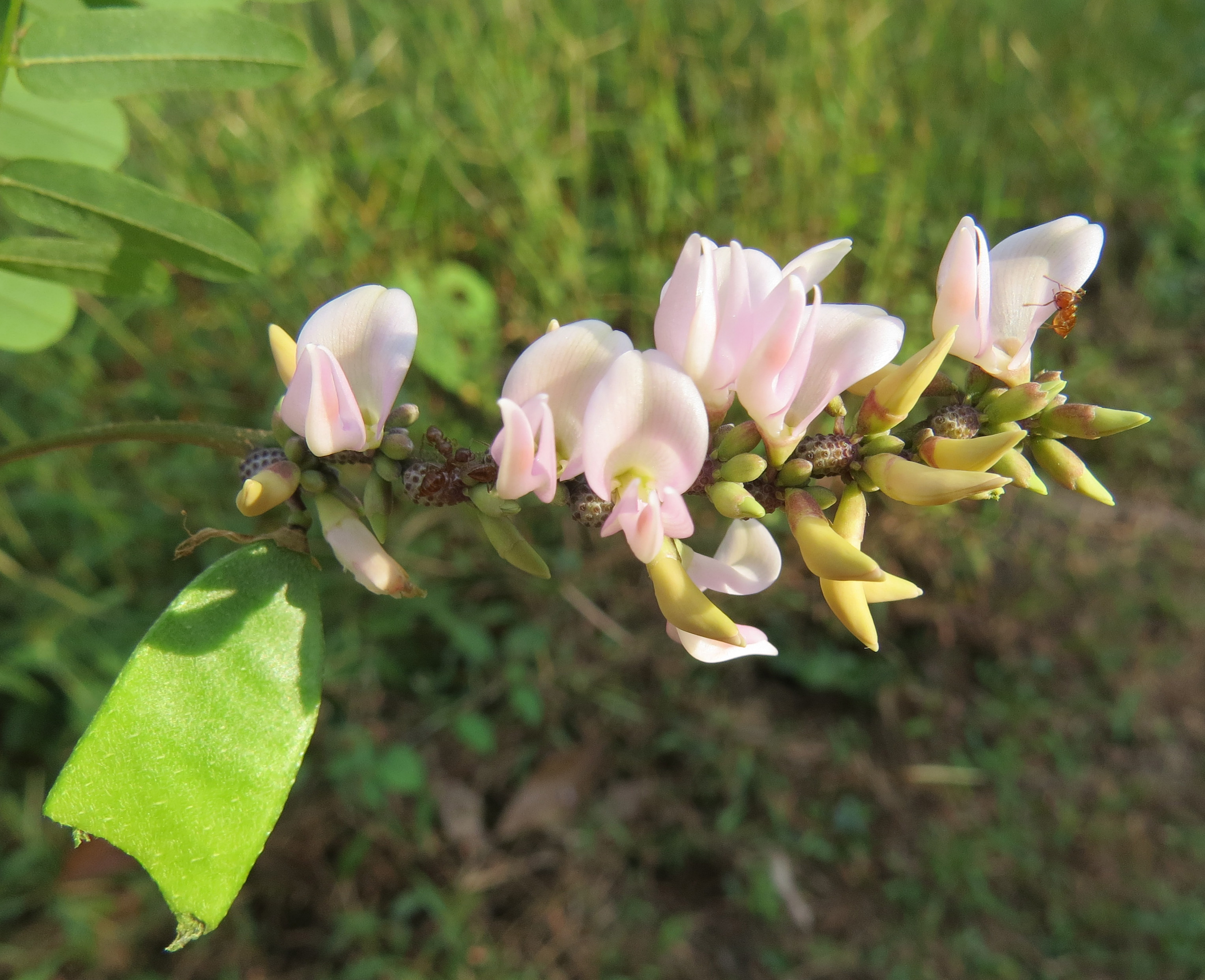 Abrus pulchellus